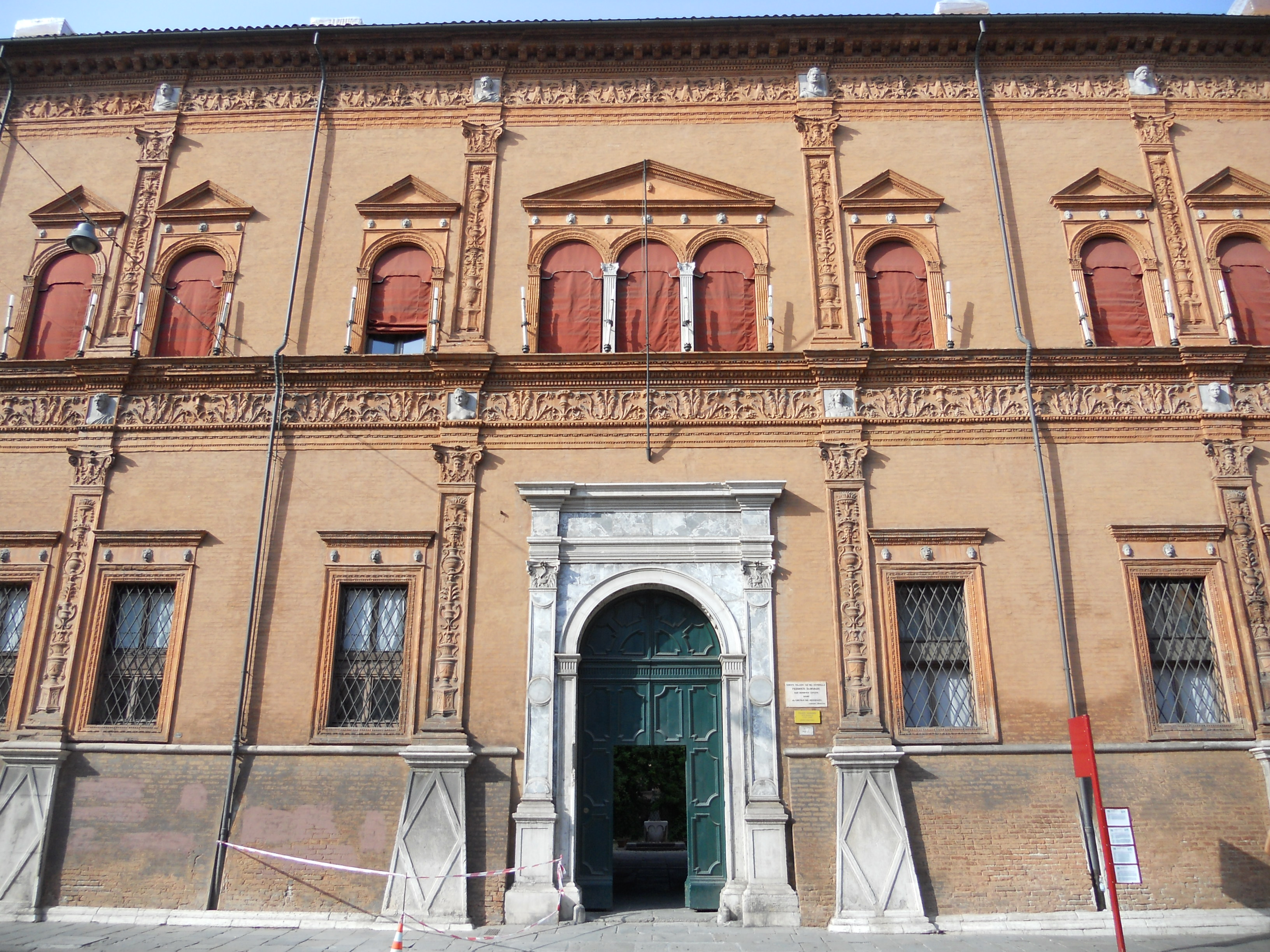 Facciata di Palazzo Roverella (particolare)